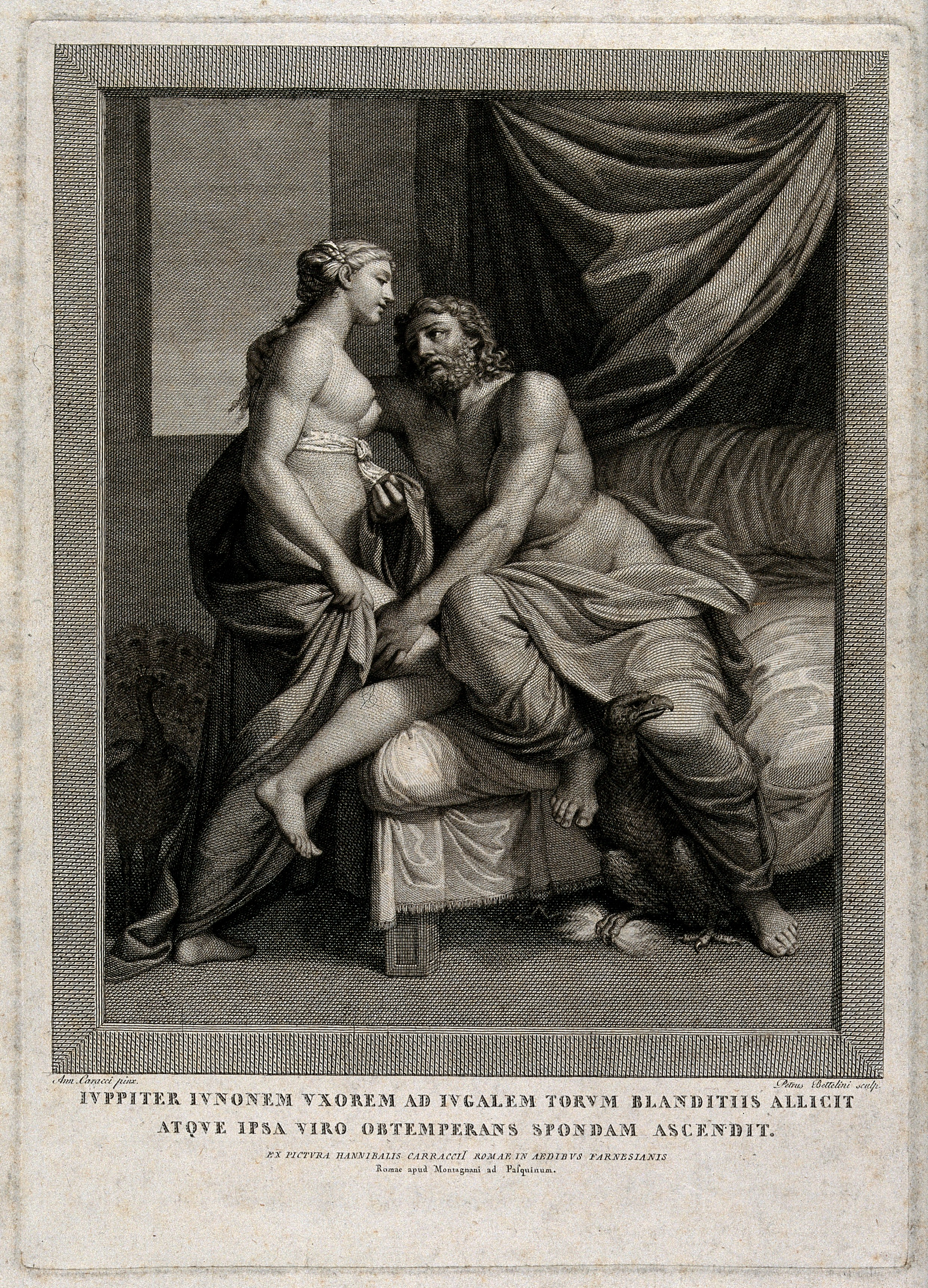 Jupiter [Zeus] and Juno [Hera]. Engraving by P. Bettelini after Annibale Carracci. Iconographic Collections Keywords: Annibale Carracci; Pietro Bettelini